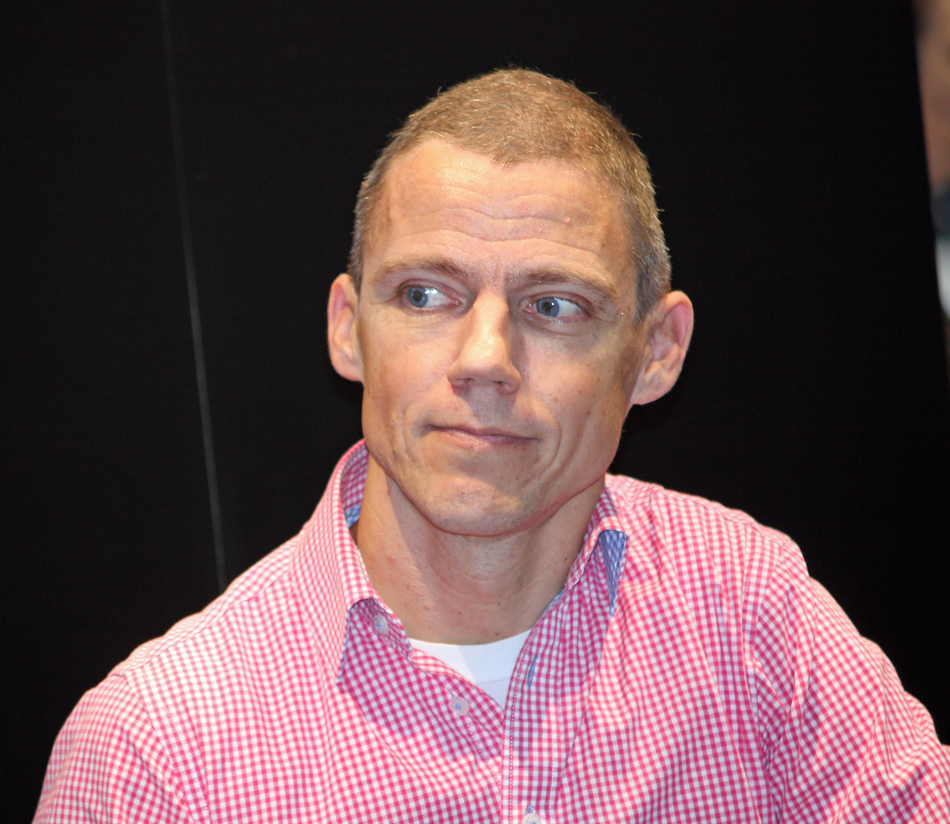 Finnish writer Jari Järvelä at Helsinki Book Fair 2012